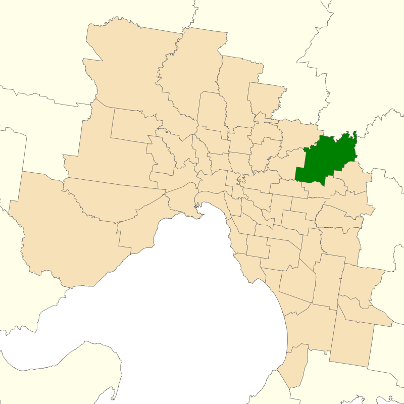 Location of the Victorian electoral district of Warrandyte (dark green) in the Greater Melbourne area.